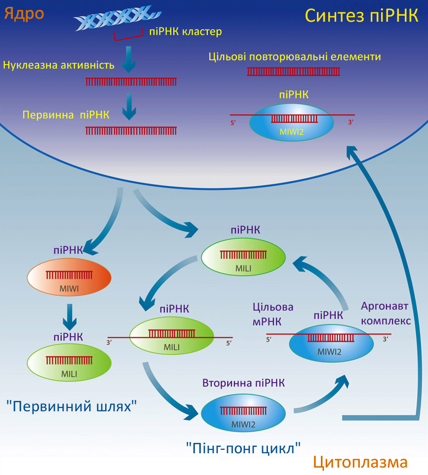 Ping-pong cycle of piRNA biogenesis.